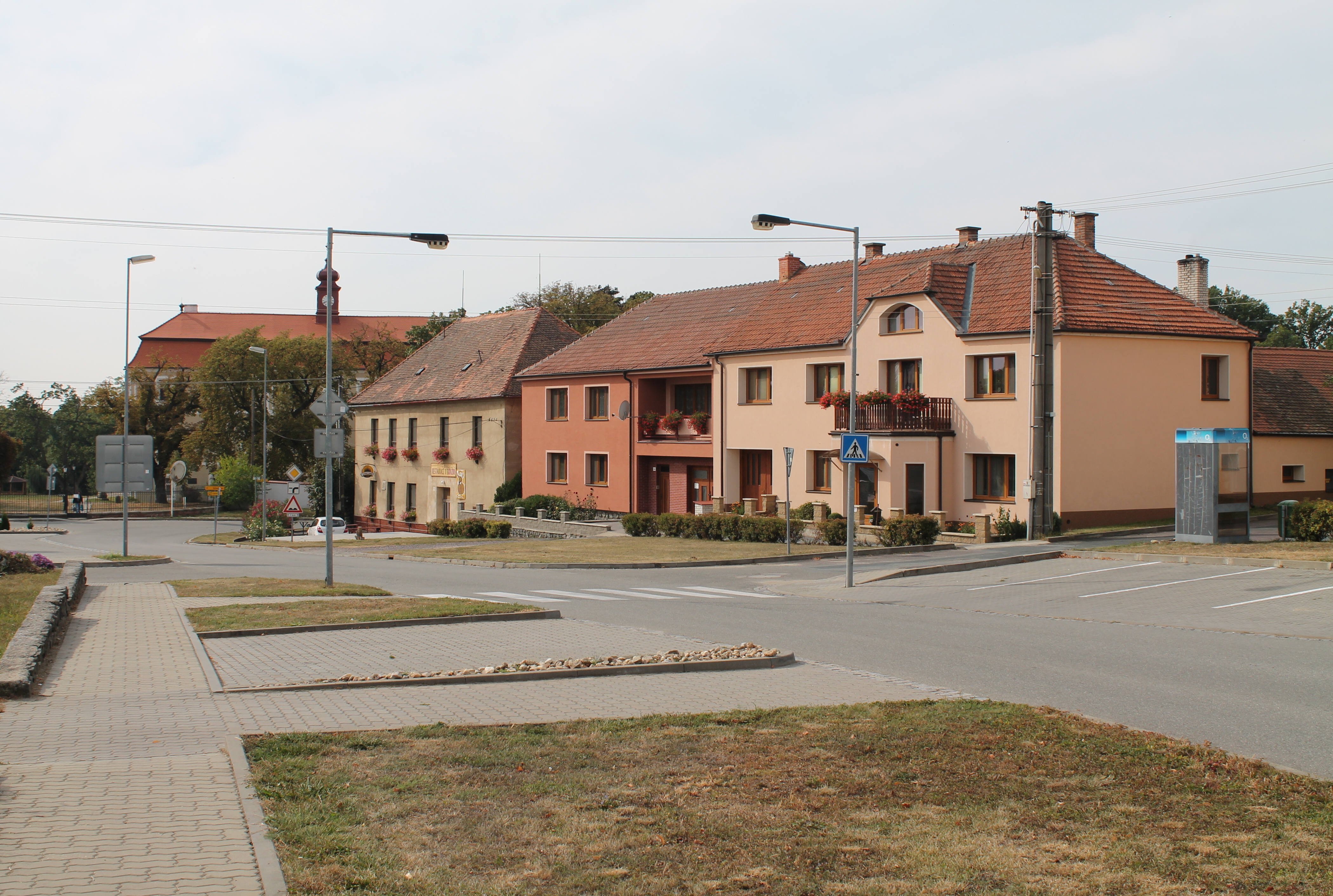 Višňové, Znojmo District, Czech Republic This photograph was taken during a group photography field trip by Brno Wikipedians: 2016-09-28.